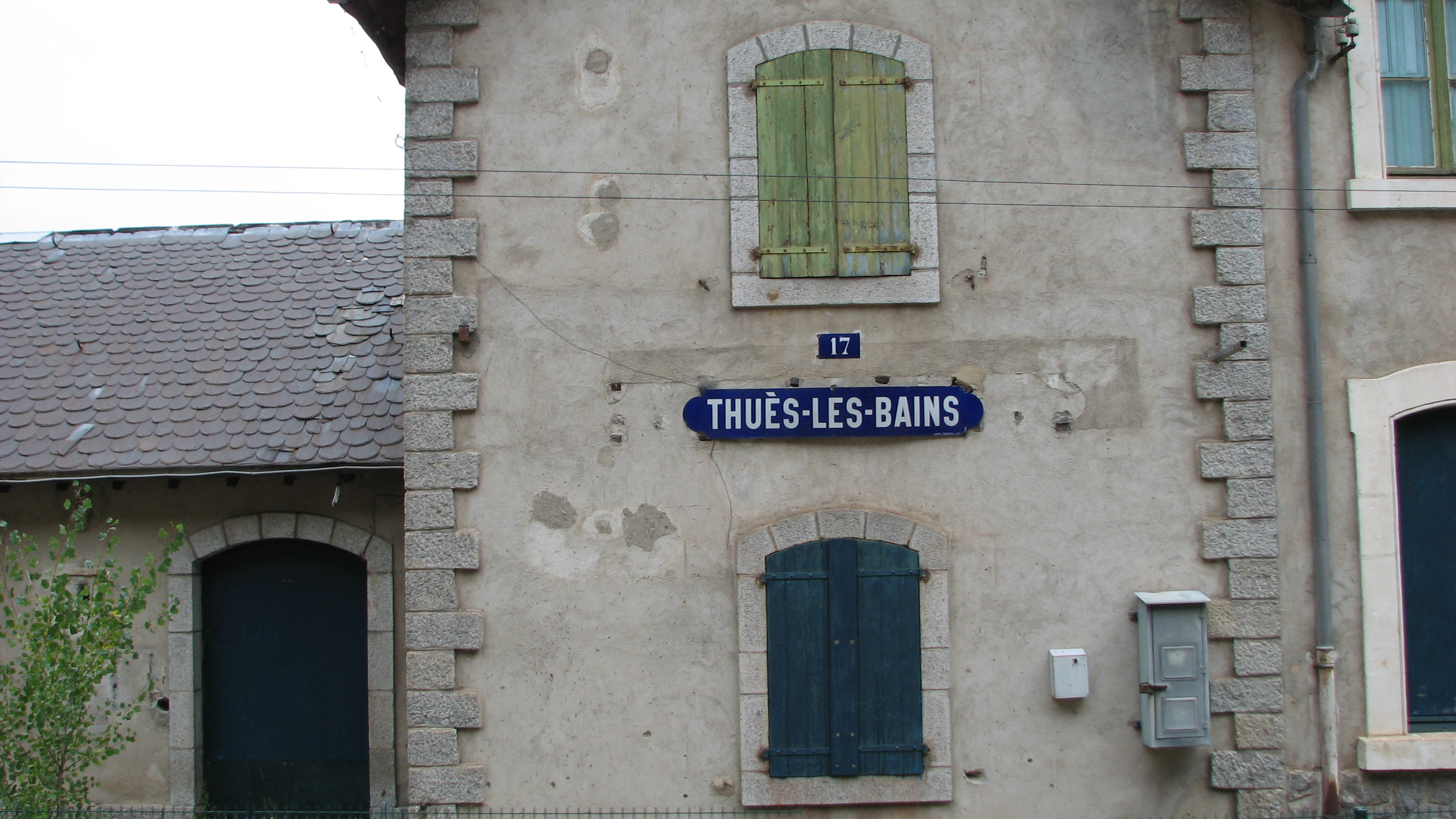 Train station of Thués-Les-Bains, in the French commune of Thuès-Entre-Valls